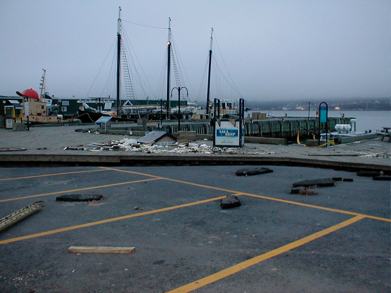 Boardwalk along Halifax's waterfront, on the day after Hurricane Juan